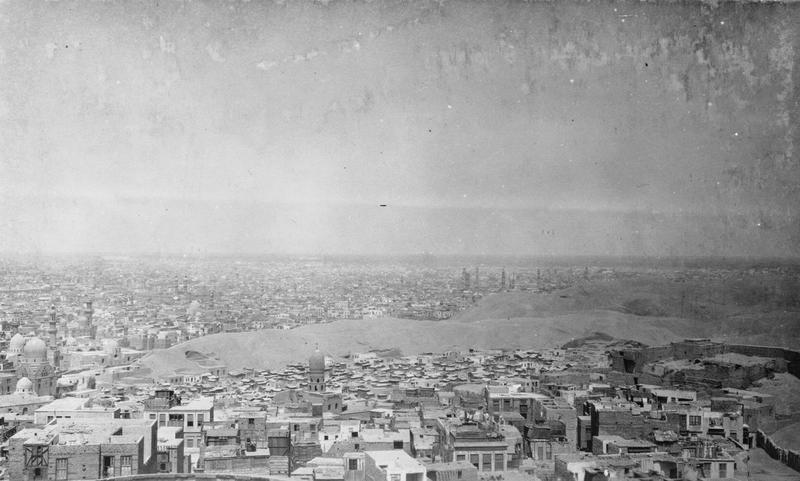 Coulson Richard N (lt Col) Collection Cairo from Citadel looking north, April 1917.